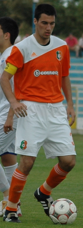 Ivelin Popov